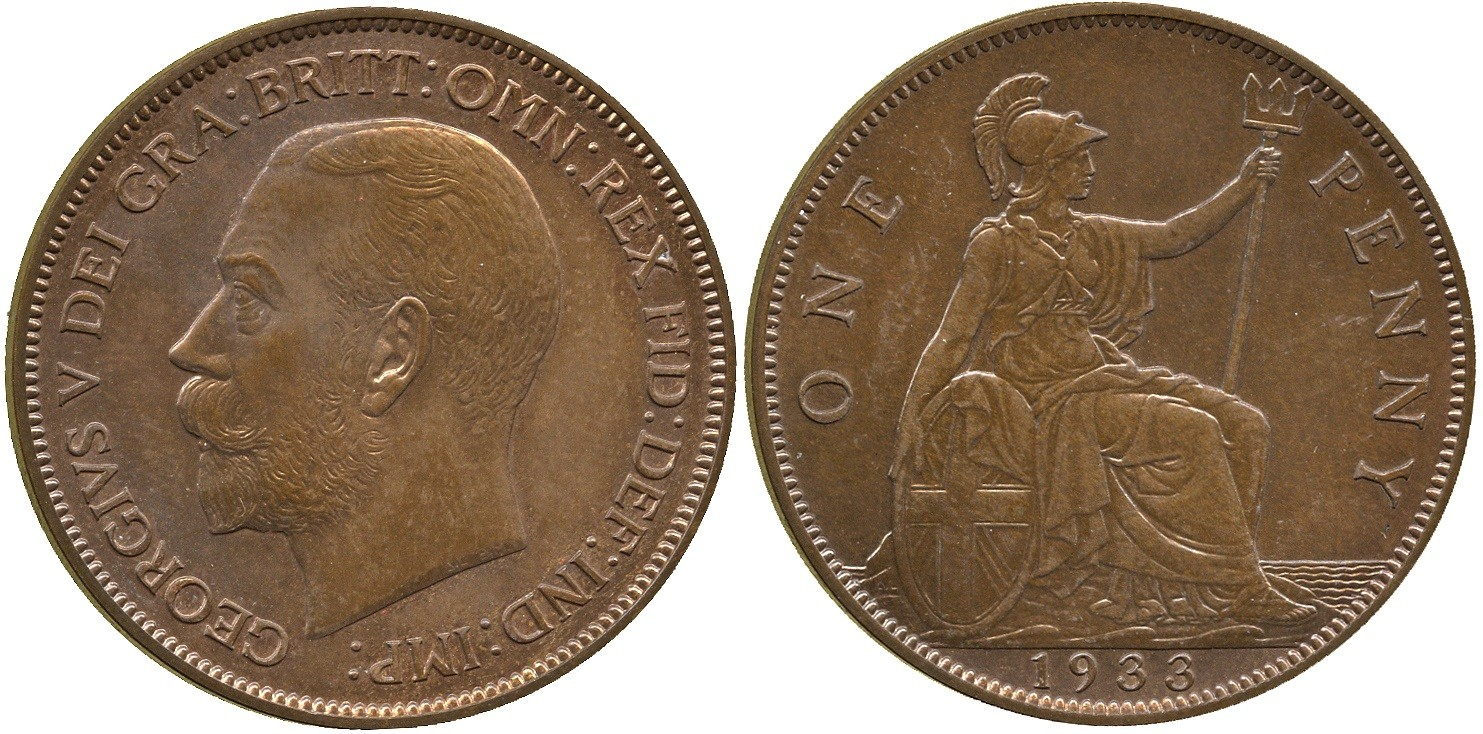 Patten penny 1933 by the Royal mint engraved by Andre Lavillier.